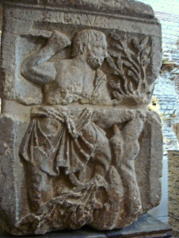 Pilier_des_Nautes_de_Jupiter_with_Esus